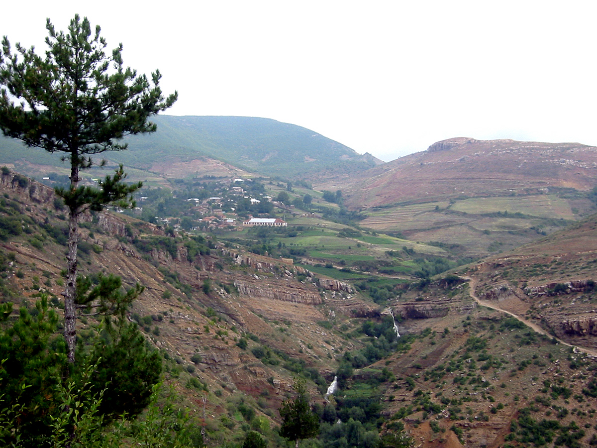 Village of Gjonmadh close to Voskopojë in Korçë County